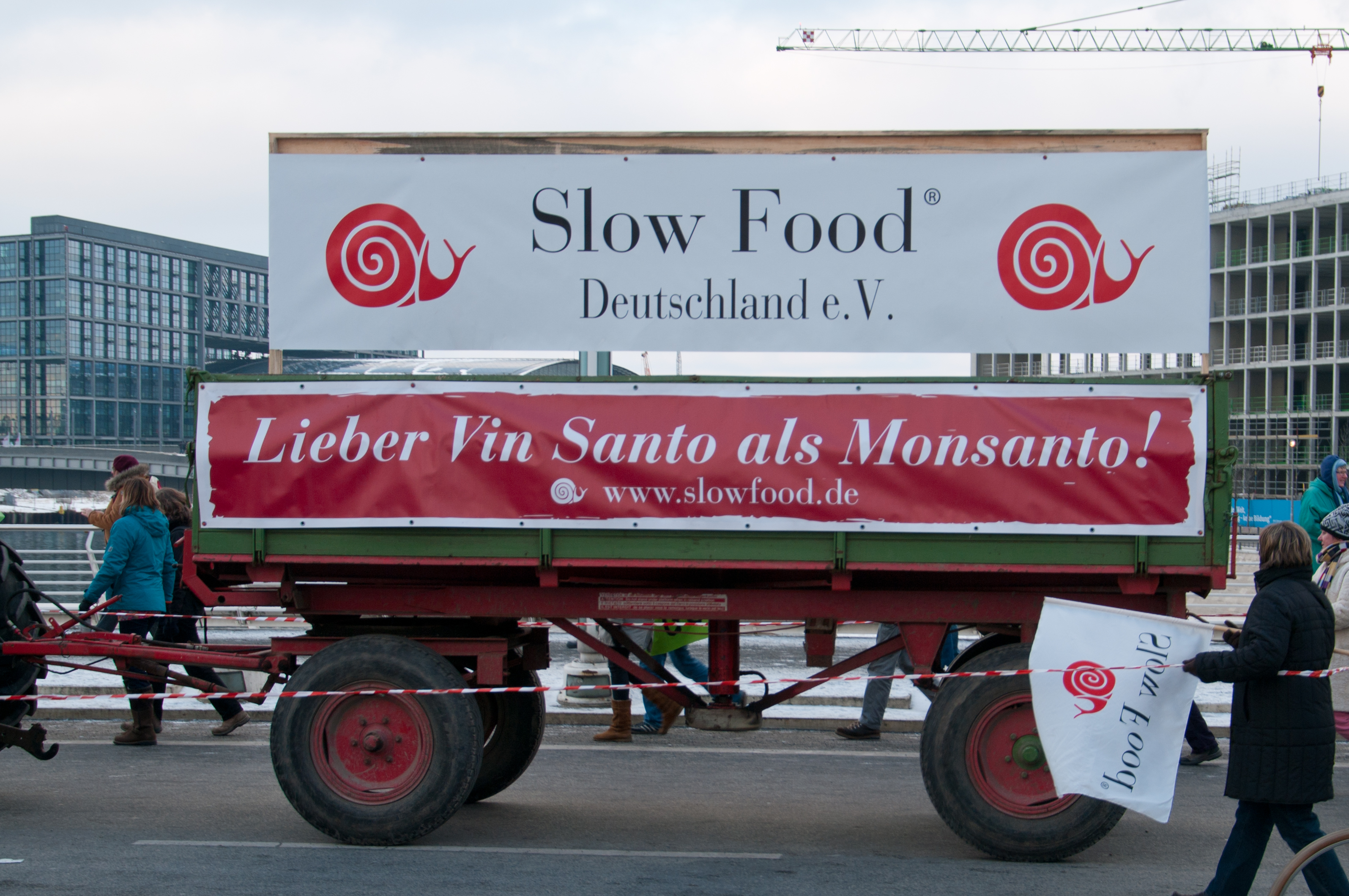 "Wir haben es satt!" demonstration in Berlin. Truck by Slow Food Germany, proclaiming "better Vin Santo than Monsanto"